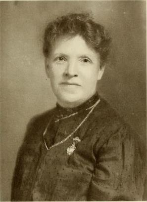 Eveline Burgess, Kajiwara Photo, Johnson, Anne (André) "Mrs. Charles P. Johnson", 1871-. Notable women of St. Louis, 1914; (Kindle Location 4402). [St. Louis, Woodward.]